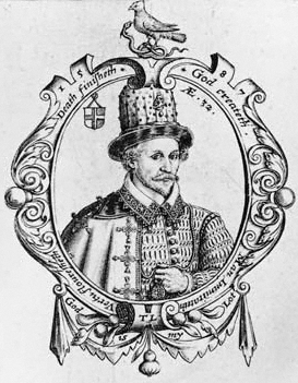 Thomas Lant, shortly before his appointment as Portcullis in 1587. This image is by Theodor de Bry, based on a self-portrait of Lant in his roll recording the funeral of Sir Philip Sidney on 16 February 1587.